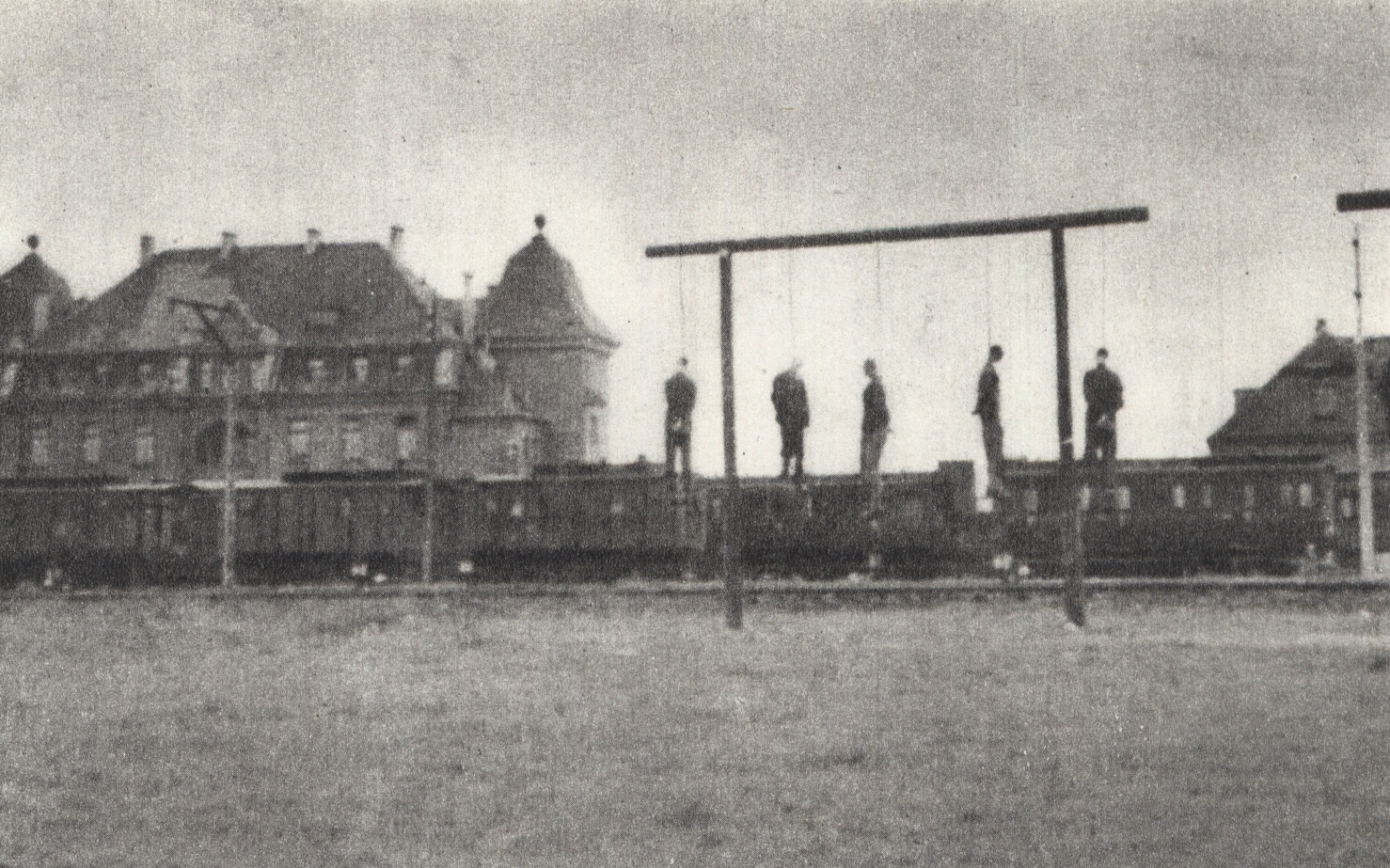 Public execution of Polish hostages in German-occupied Poland. Szczęśliwice district in Warsaw, 16th October 1942.